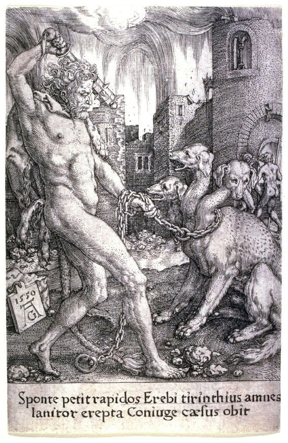 From a set of thirteen plates, „The deeds of Hercules“